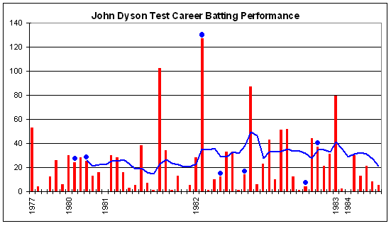 Test batting chart of John Dyson. Red columns are the runs in the innings. Blue dots indicate not outs. Blue line is average in the last ten innings. Thanks to Raven4x4x for providing the template.